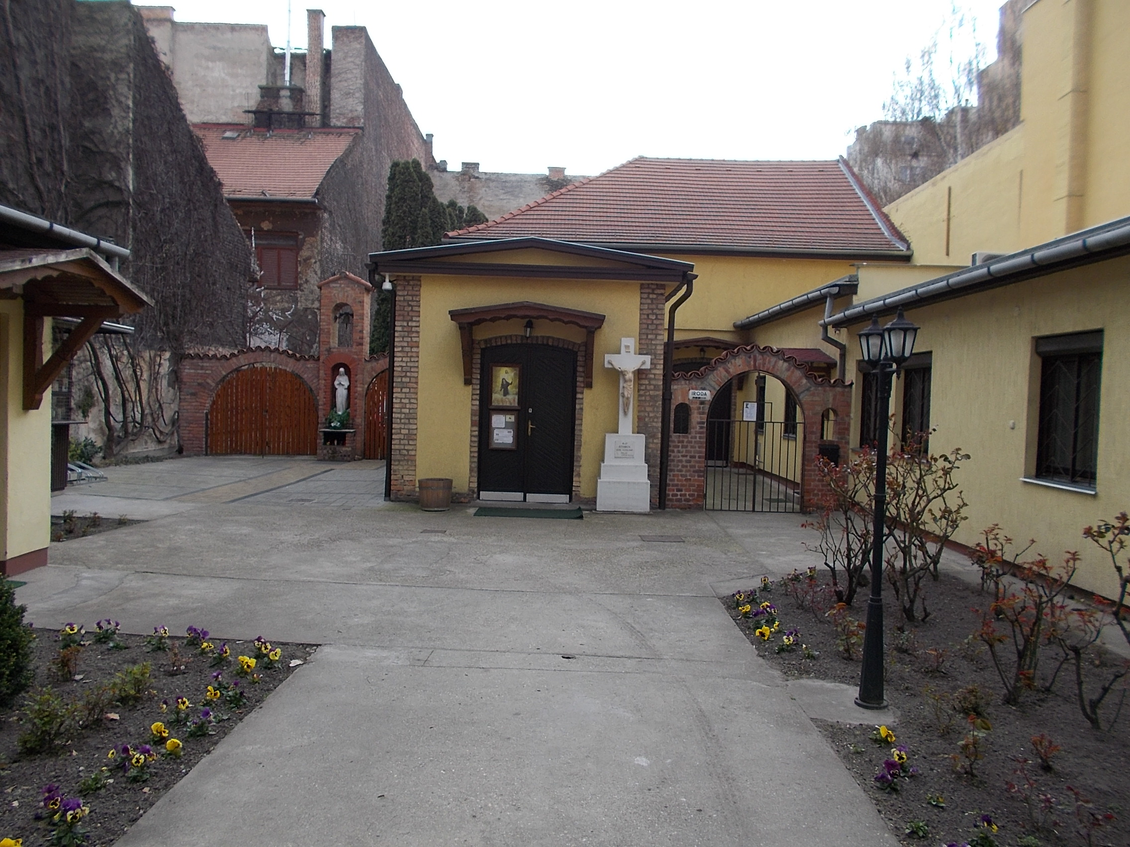 Saint Rita Church. - Kun Street, Népszínház neighbourhood, Budapest District VIII.